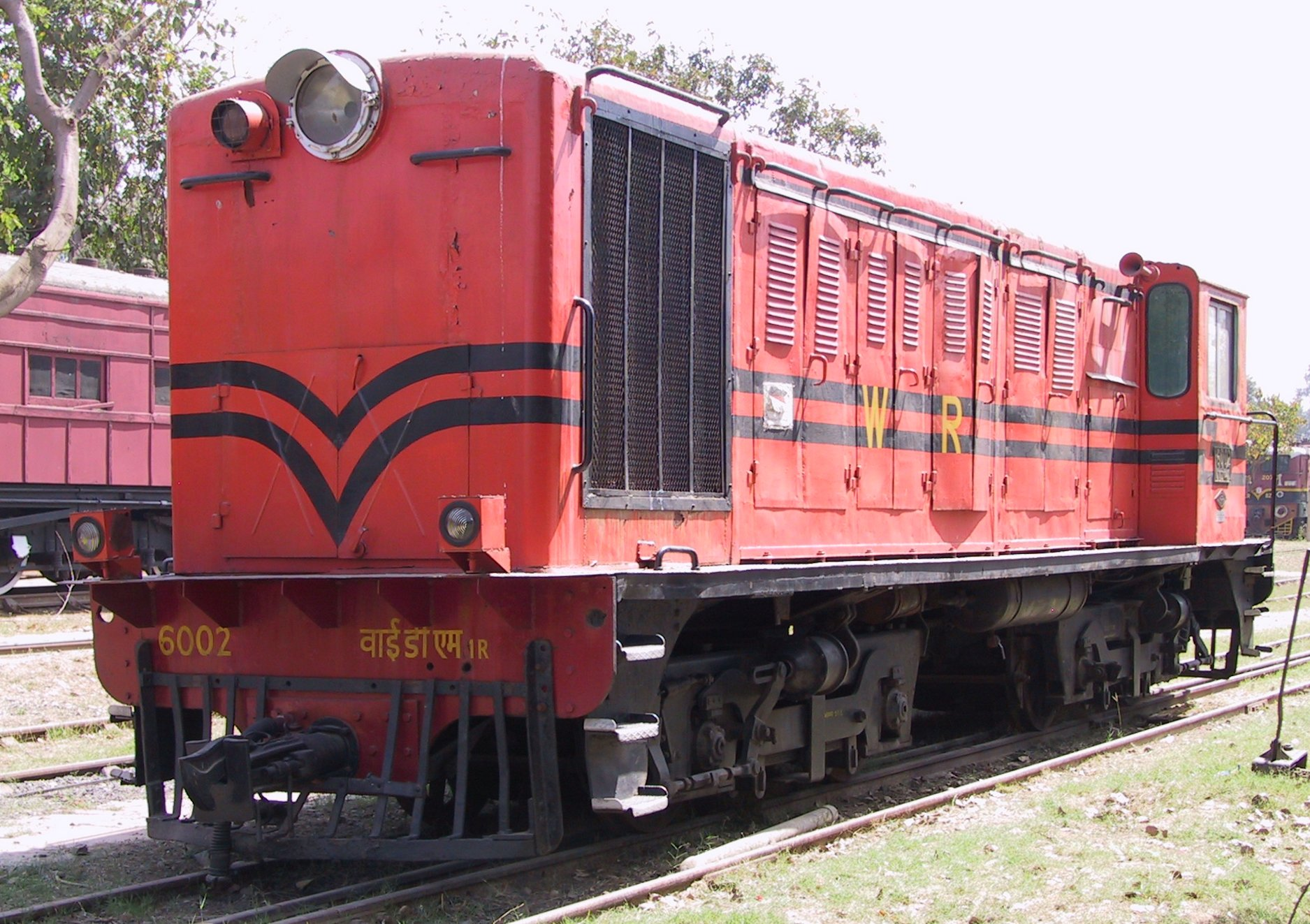 Indian diesel locomotive, class YDM1R, Nº 6002